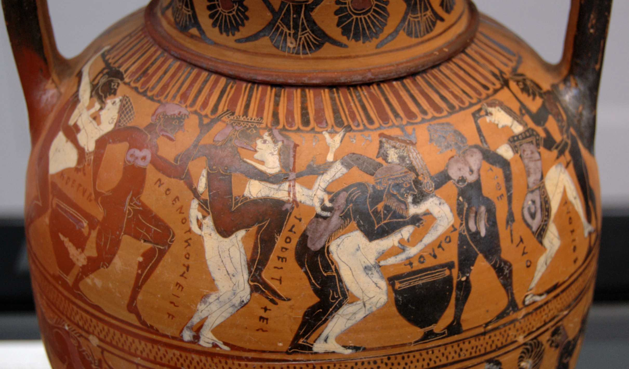 Komos scene: komasts and hetaera in explicit and acrobatic positions, two kraters on the floor. Attic black-figure neck-amphora, ca. 560 BC. From Vulci.